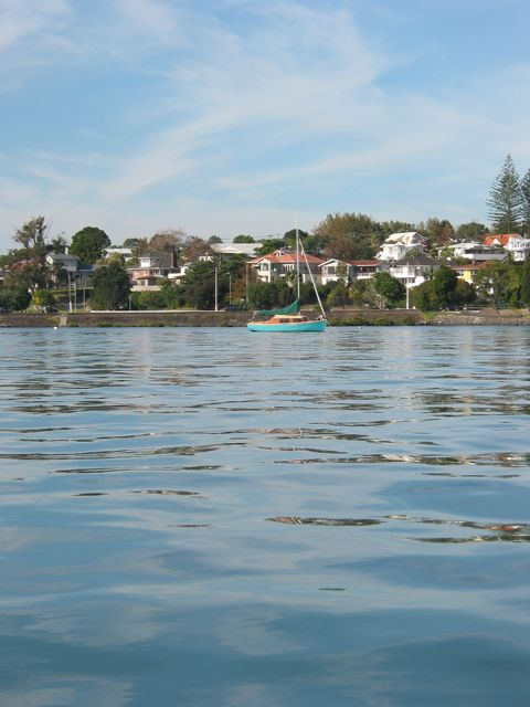 Coxs Bay Auckland New Zealand SSE Looking towards the land in SSE direction